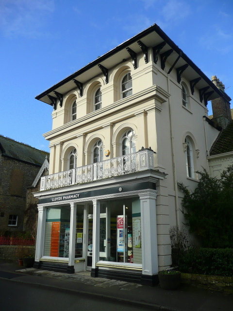 Lloyds Pharmacy, Wedmore